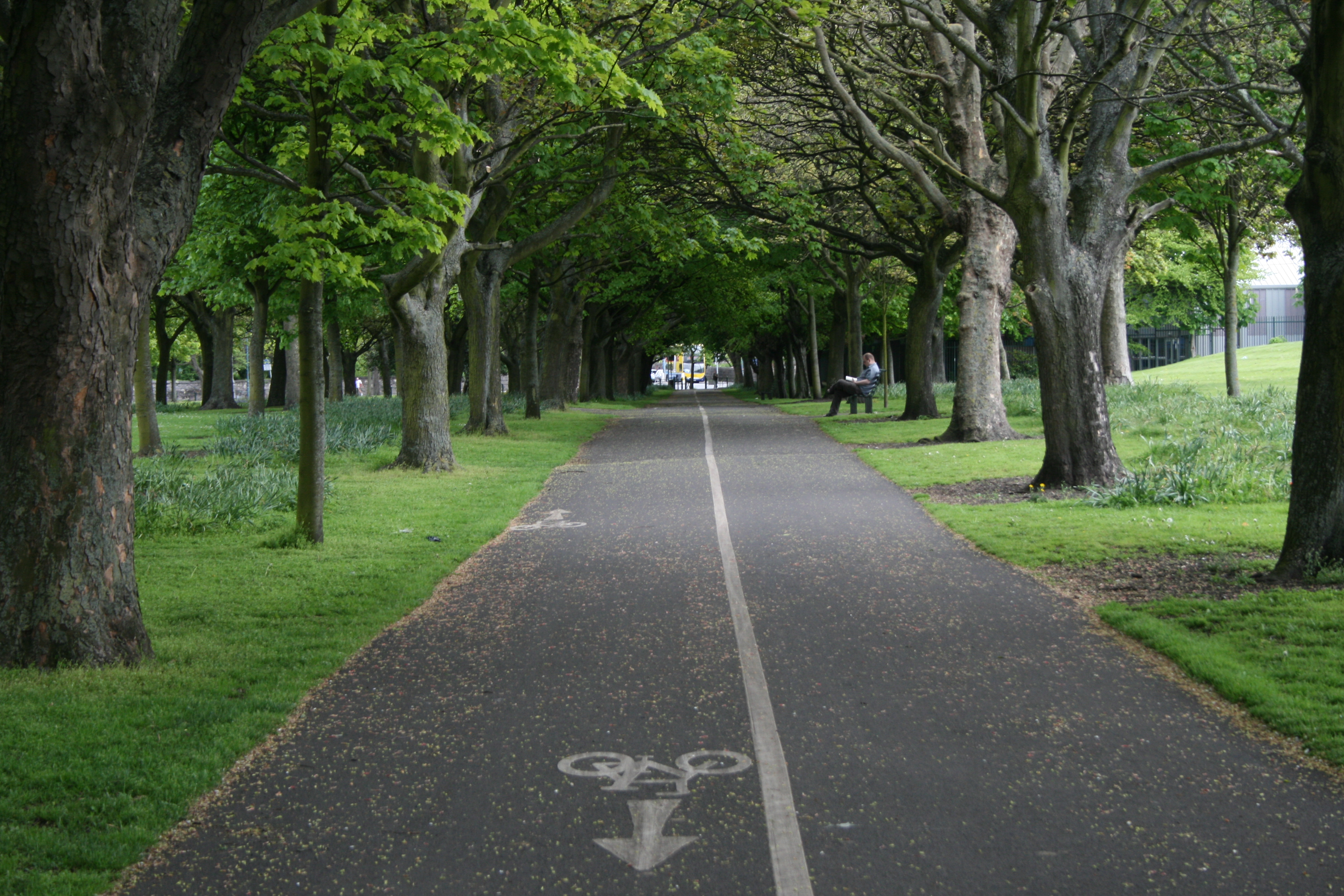 Fairview Park, North-Central Dublin